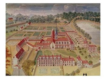 Abbey of Port-Royal des Champs, near Paris, General View